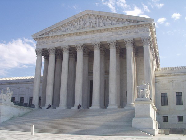 United States Supreme Court Building, used here to illustrate normal vision/visual field, prior to onset of Retinitis Pigmentosa.